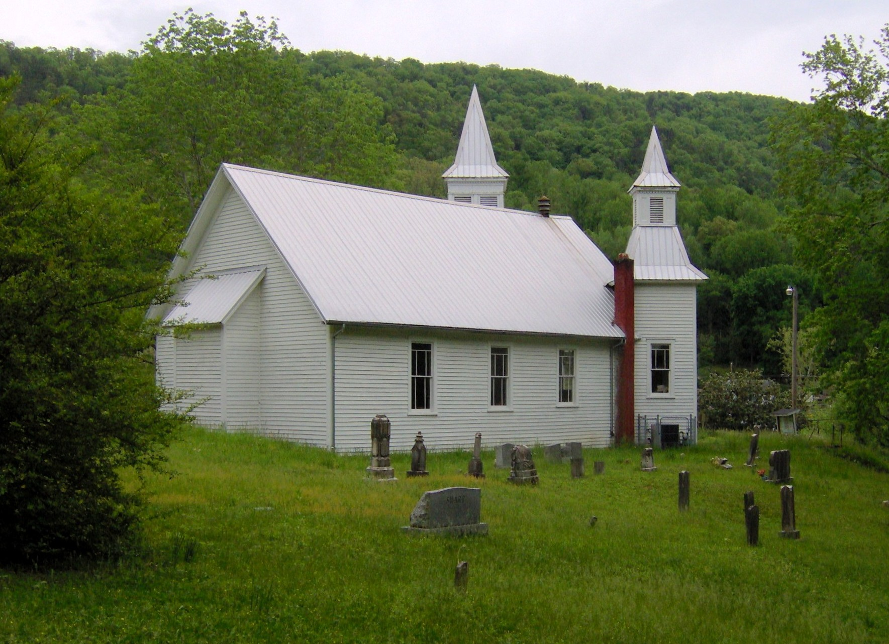 Briceville Community Church in Briceville, Tennessee, USA. The church, one of the oldest in Anderson County, was built in 1888 by Welsh immigrant coal miners. It was placed on the National Register of Historic Places in 2003. Several victims of the Cross Mountain Mine disaster of 1911 are buried in the church's cemetery.